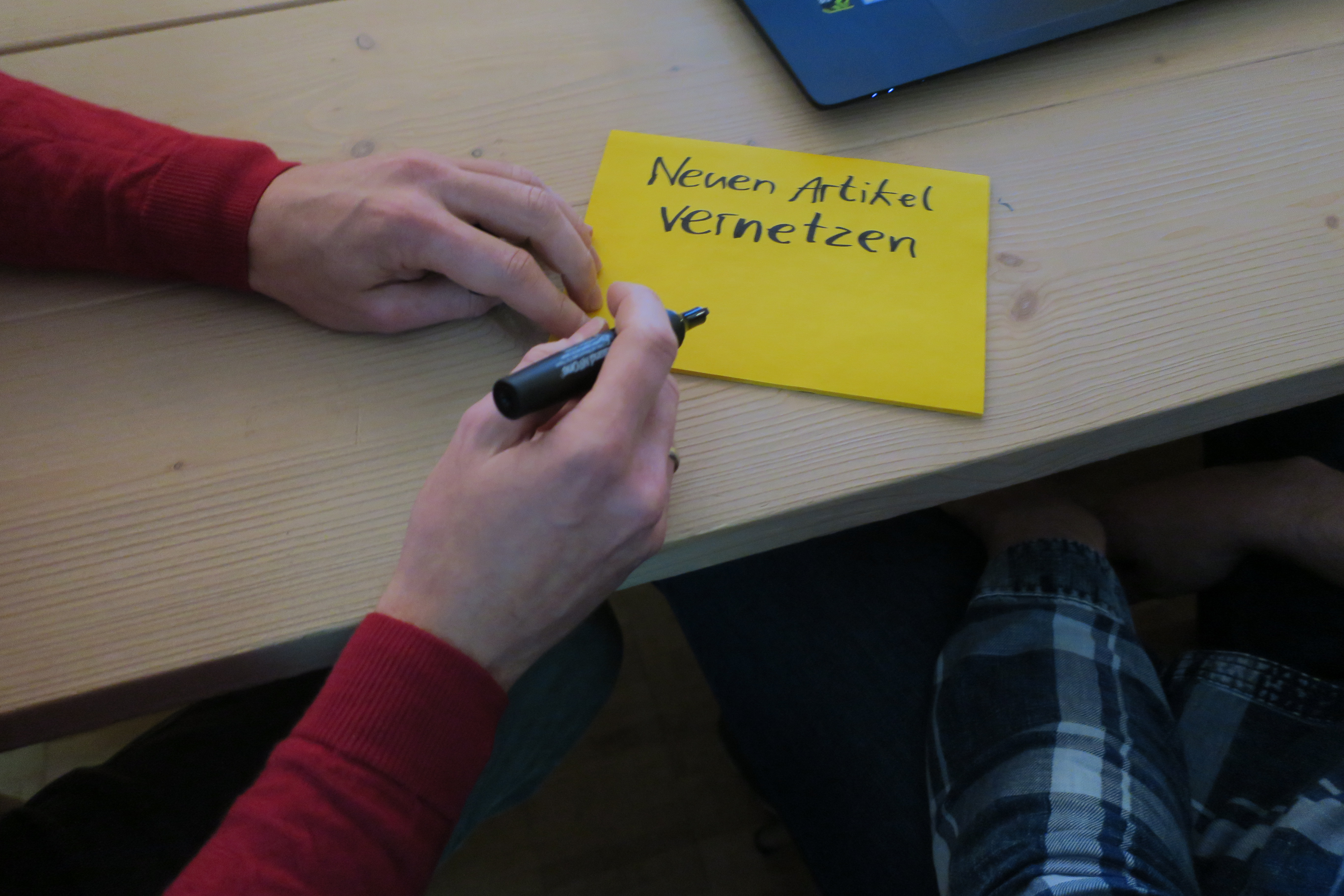 Person writing on a sticky note during the German Technical Wishlist workshop in Munich in 2016.